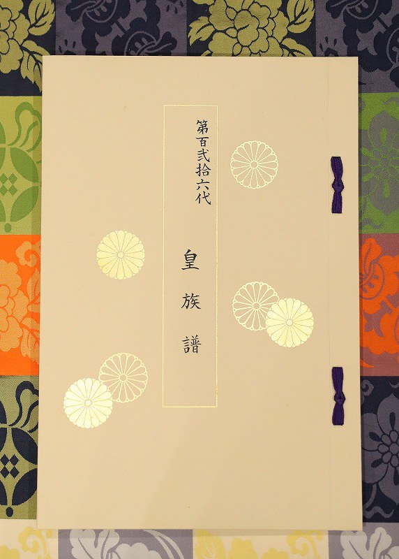 The Imperial Household Register of Japan, which records the particulars of Japanese emperors and their families (in lieu of the koseki).